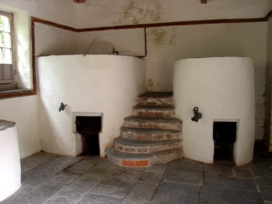 The household brewery of the Llanerchaeron estate near Aberaeron in Ceredigion, Wales.